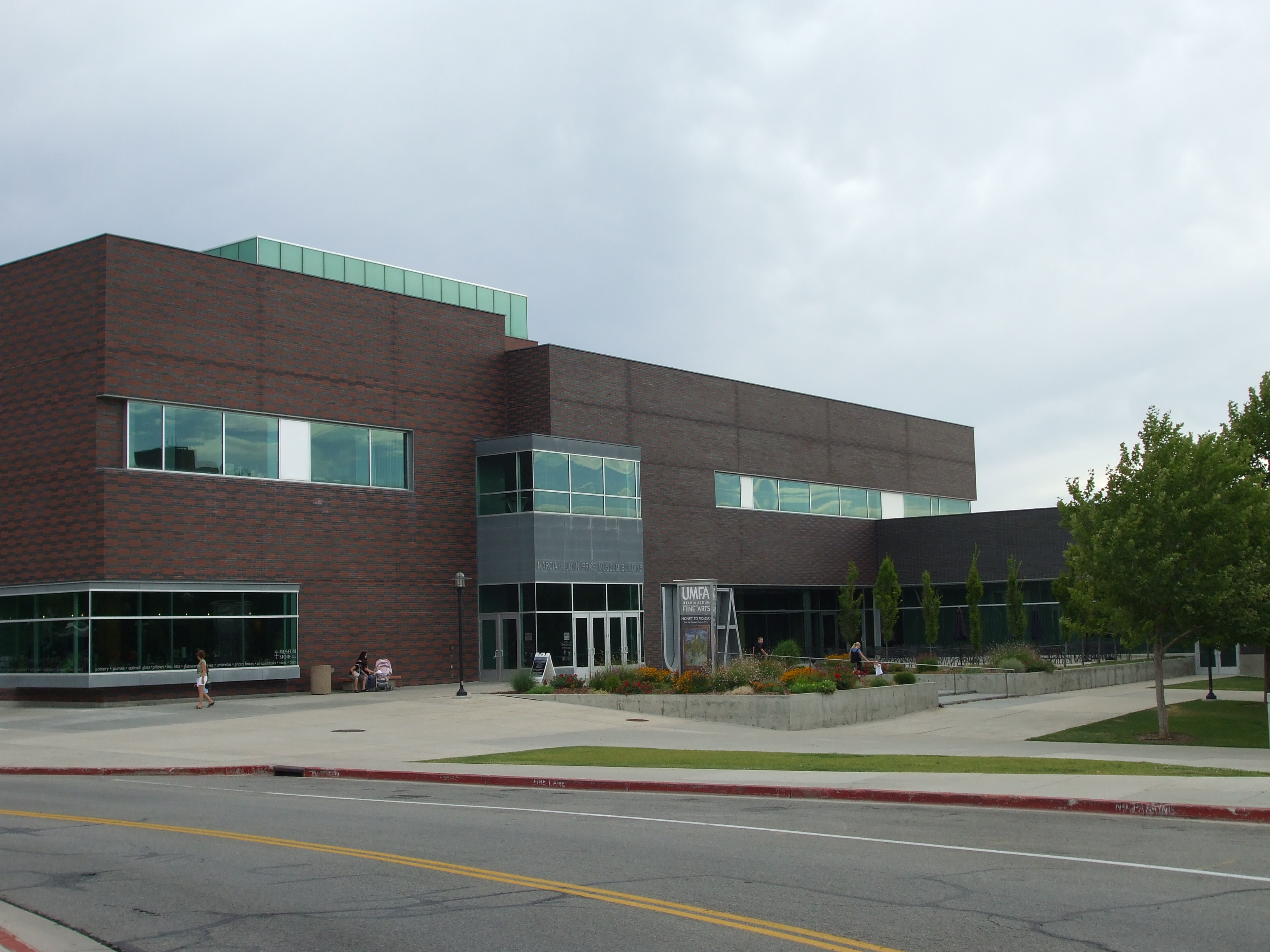 The Marcia & John Price Museum Building, home of the Utah Museum of Fine Arts, at the University of Utah